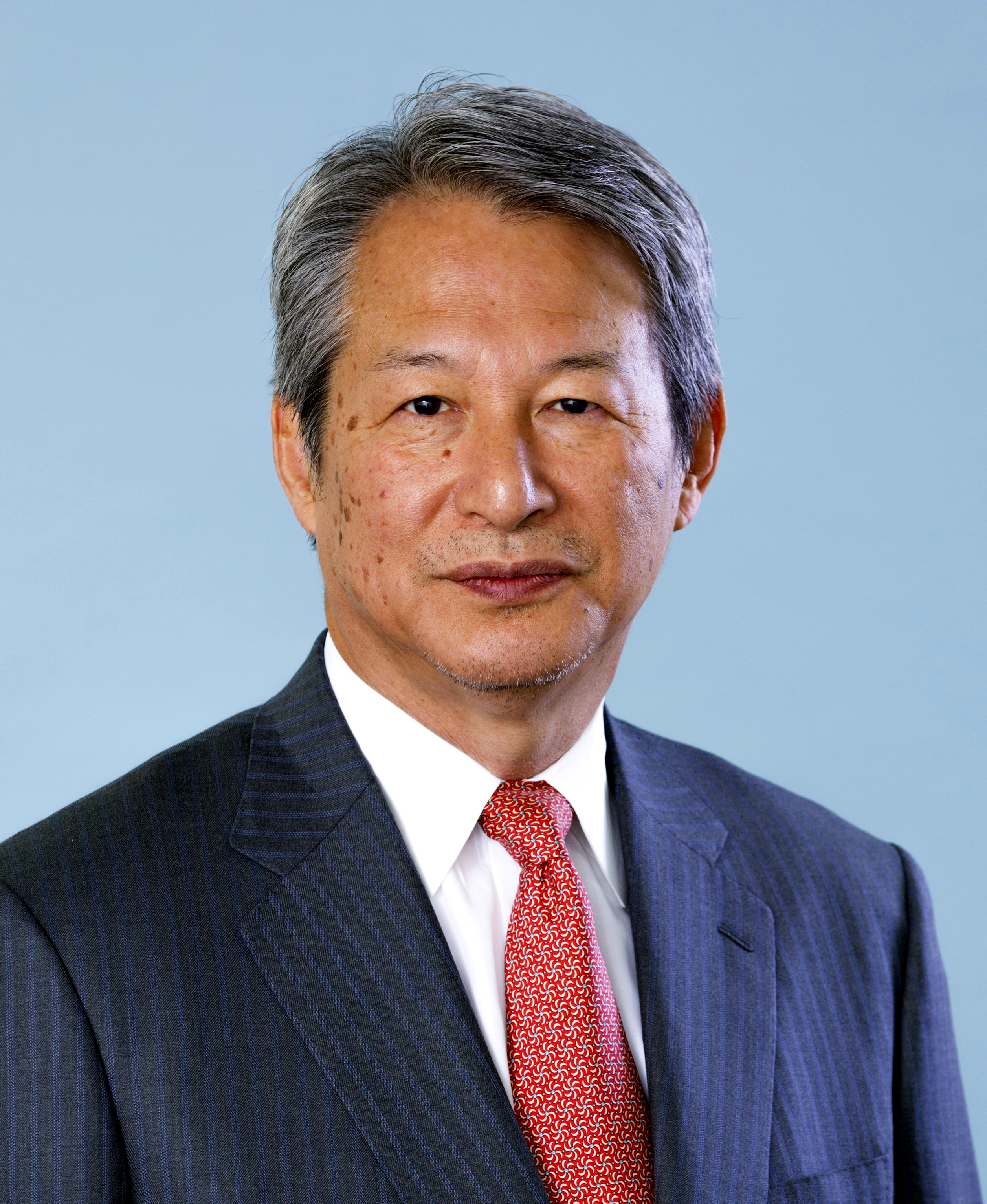 Takashi Shiraishi, President of the National Graduate Institute for Policy Studies, received the Person of Cultural Merit on November, 2016.